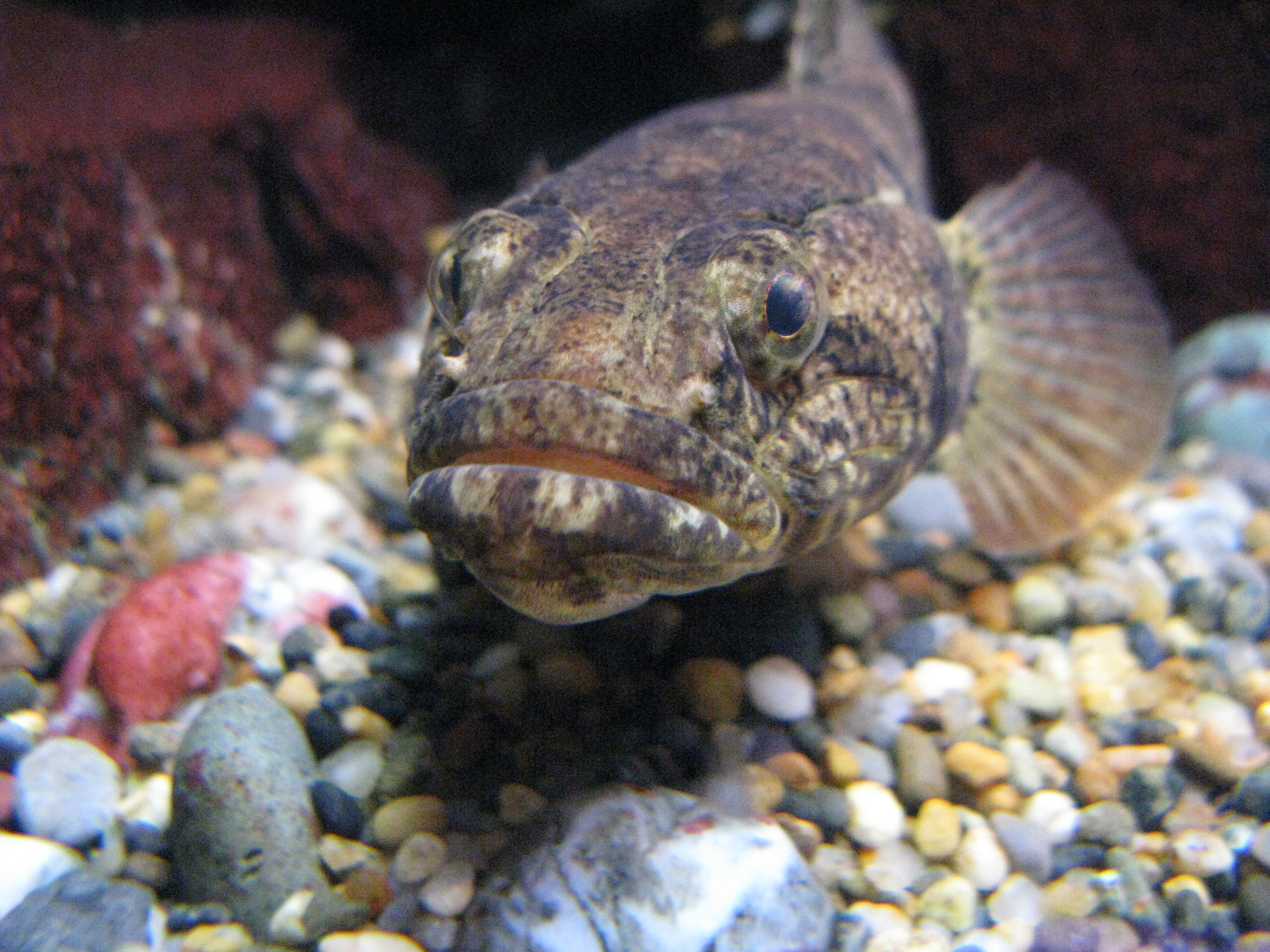 Odontobutis obscura in Suidokinenkan, Osaka, Japan